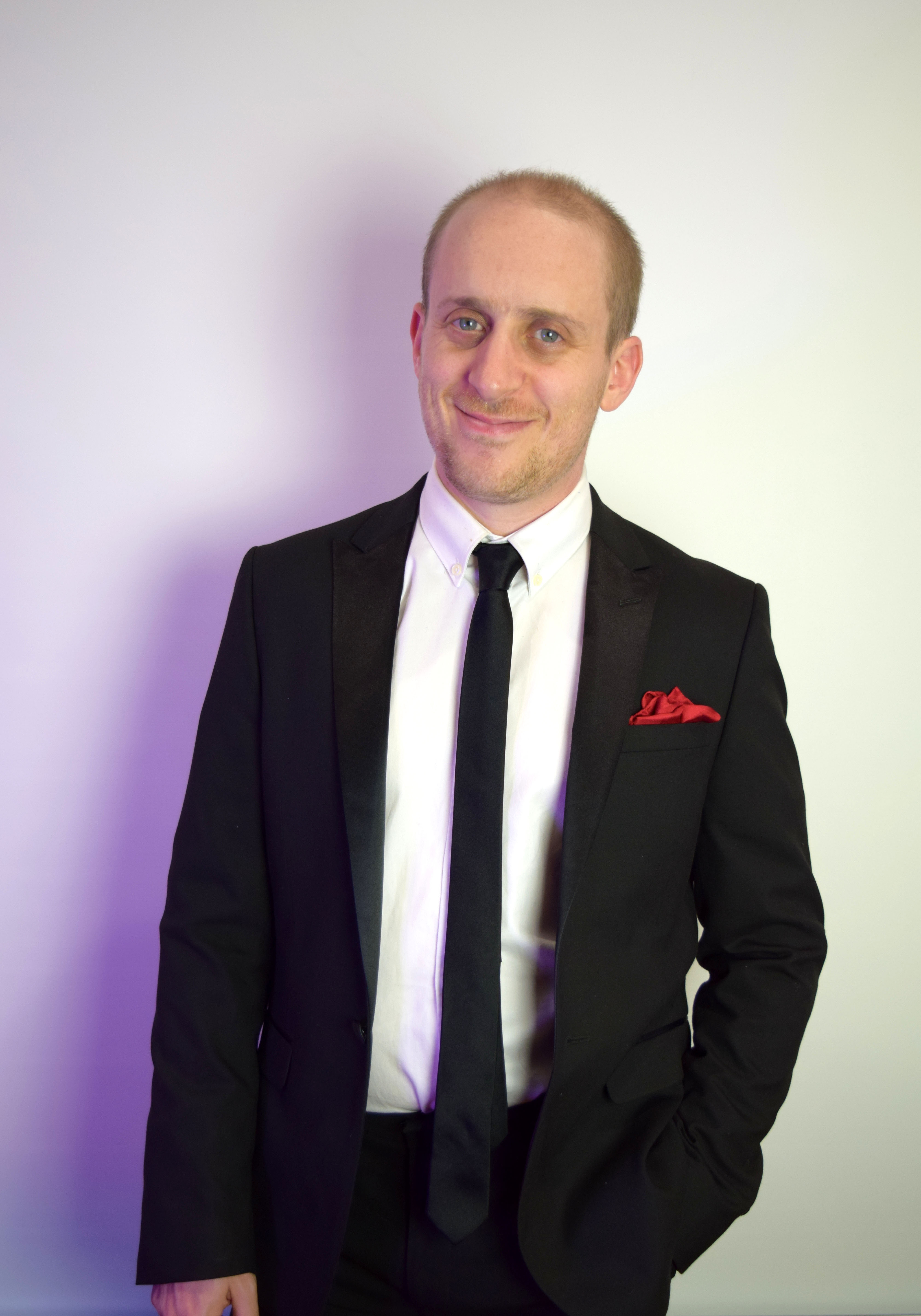 Simon Tedeschi, Australian classical pianist.